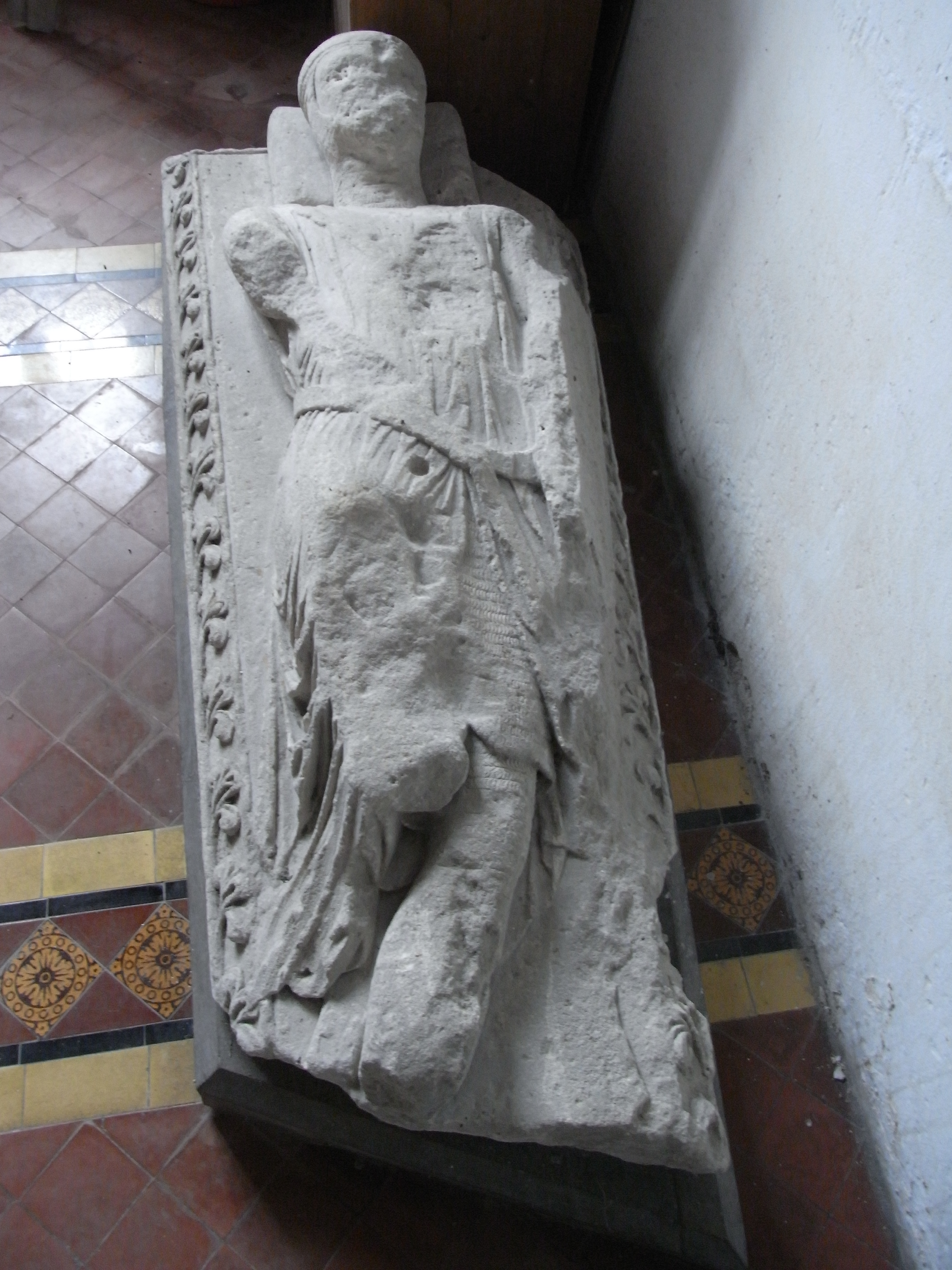 Effigy supposed to be of the crusading knight Sir William de Champernowne, formerly in the Umberleigh Chapel, removed thence c. 1800 to present location in Atherington Church, Devon, against east wall of north aisle